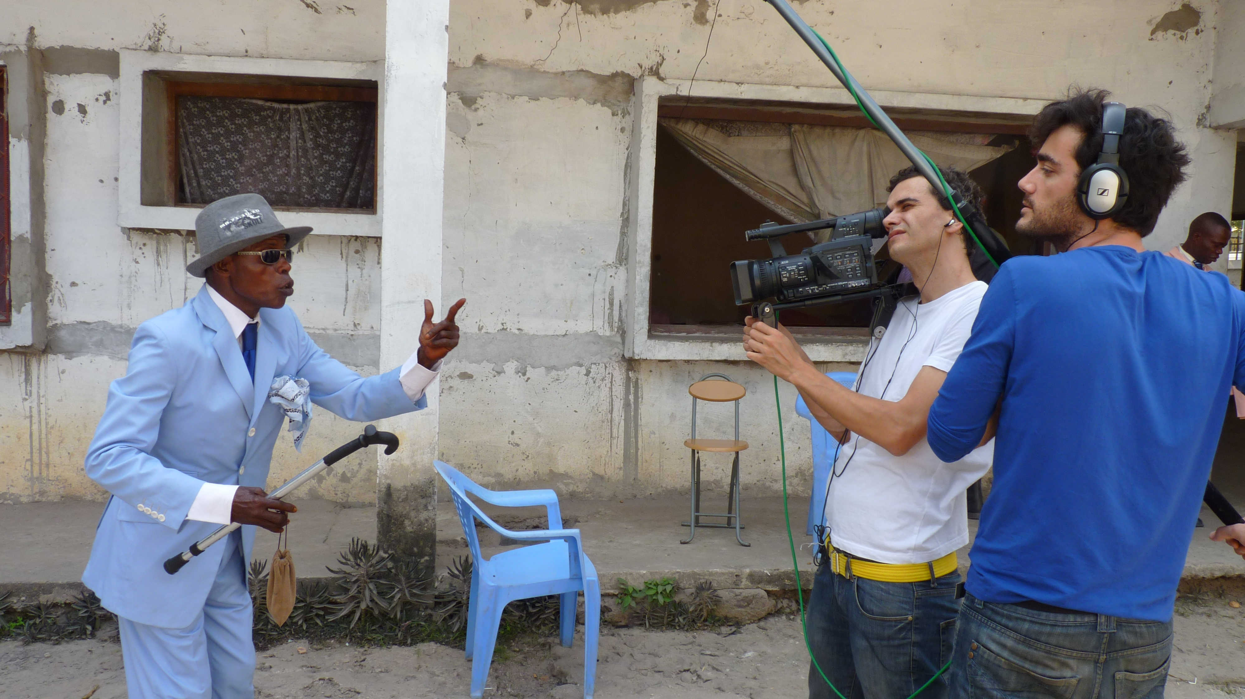 Making of Dimanche à Brazzaville